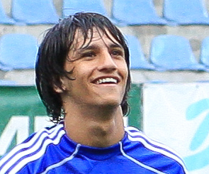 Ruslan Mingazow, Turkemenistani football player